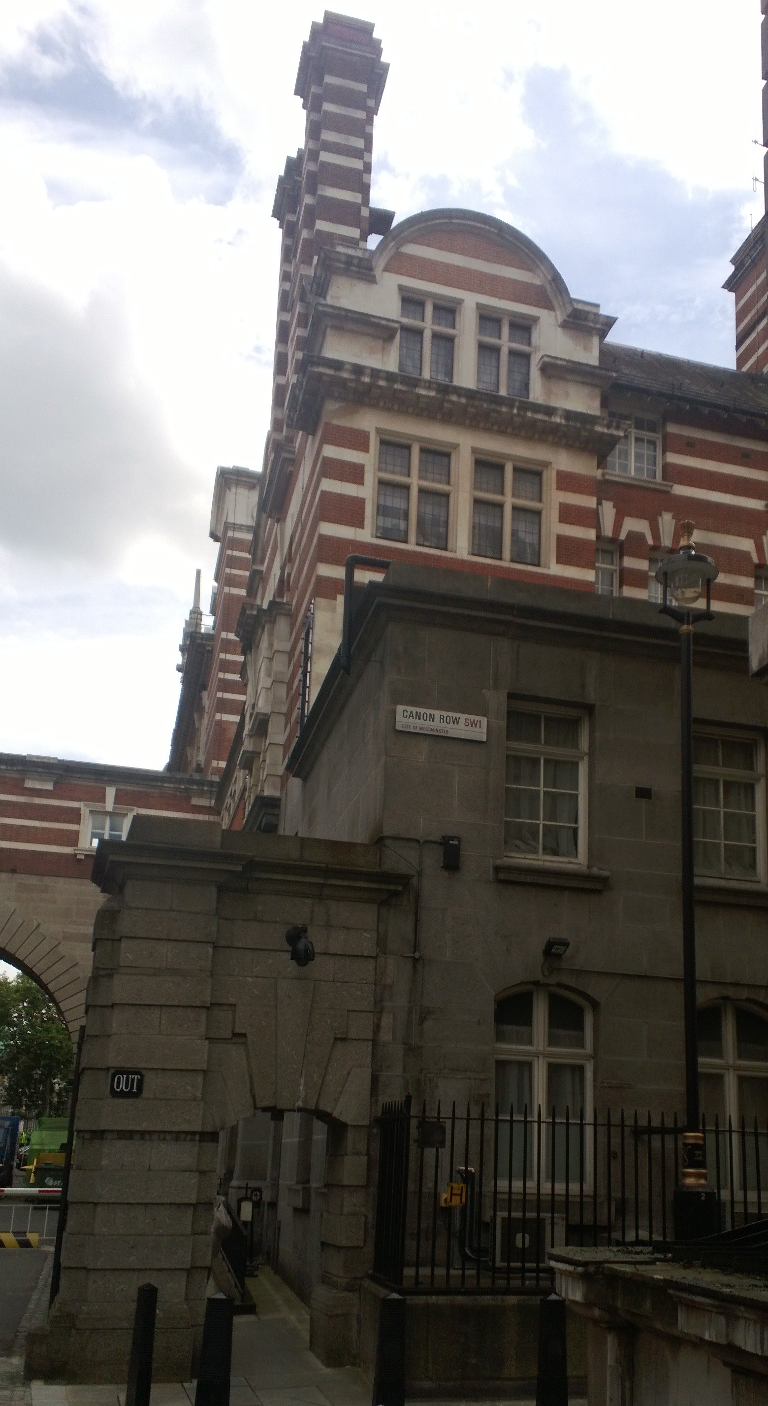 Built as an extension to the original New Scotland Yard (aka Norman Shaw buildings).